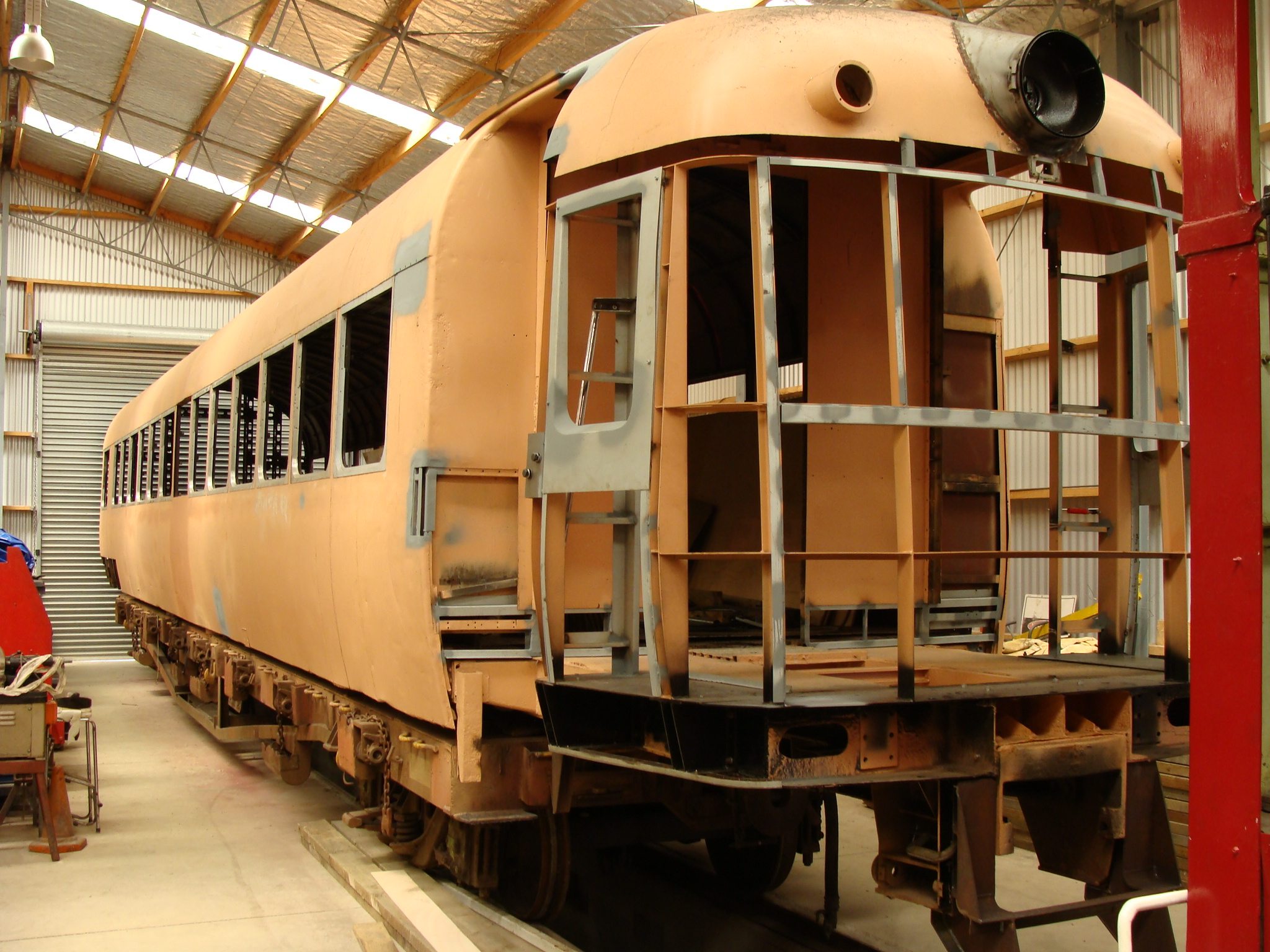 One half of RM121 in the Railcar Storage Shed at Pahiatua Railway Station. Note the headlight from RM 119 has been fitted.